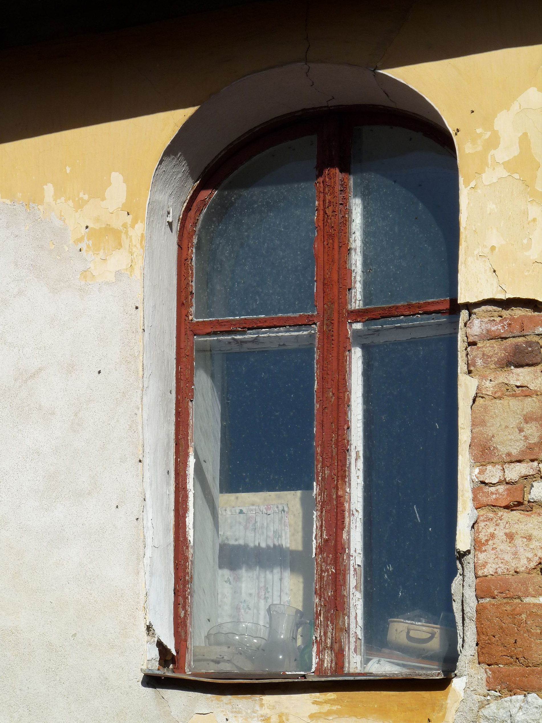 Former synagogue in the town of Rabí, Klatovy District, Czech Republic - preserved synagogue window